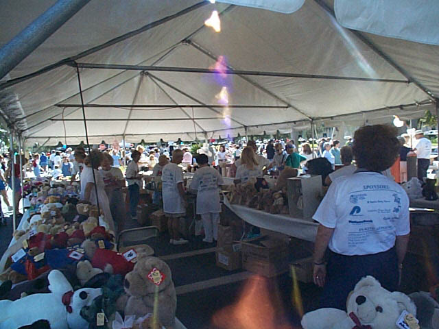 The annual Teddy Bear Fair held by the now closed Teddy Bear Museum of Naples. Picture taken by myself in 1999.